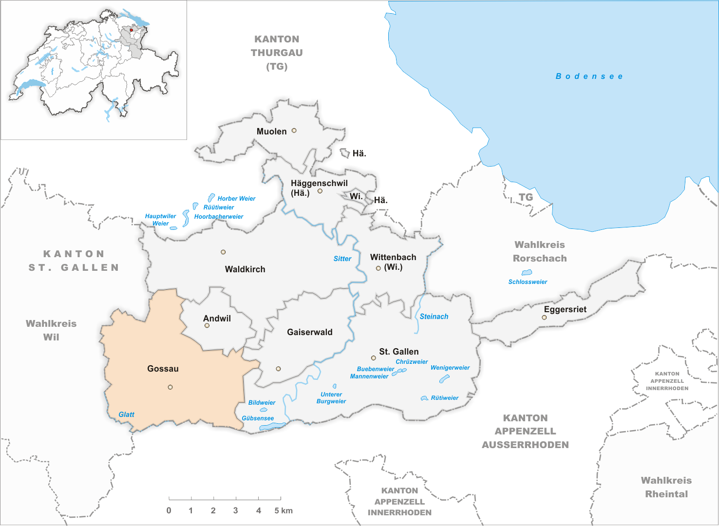 Municipality Gossau